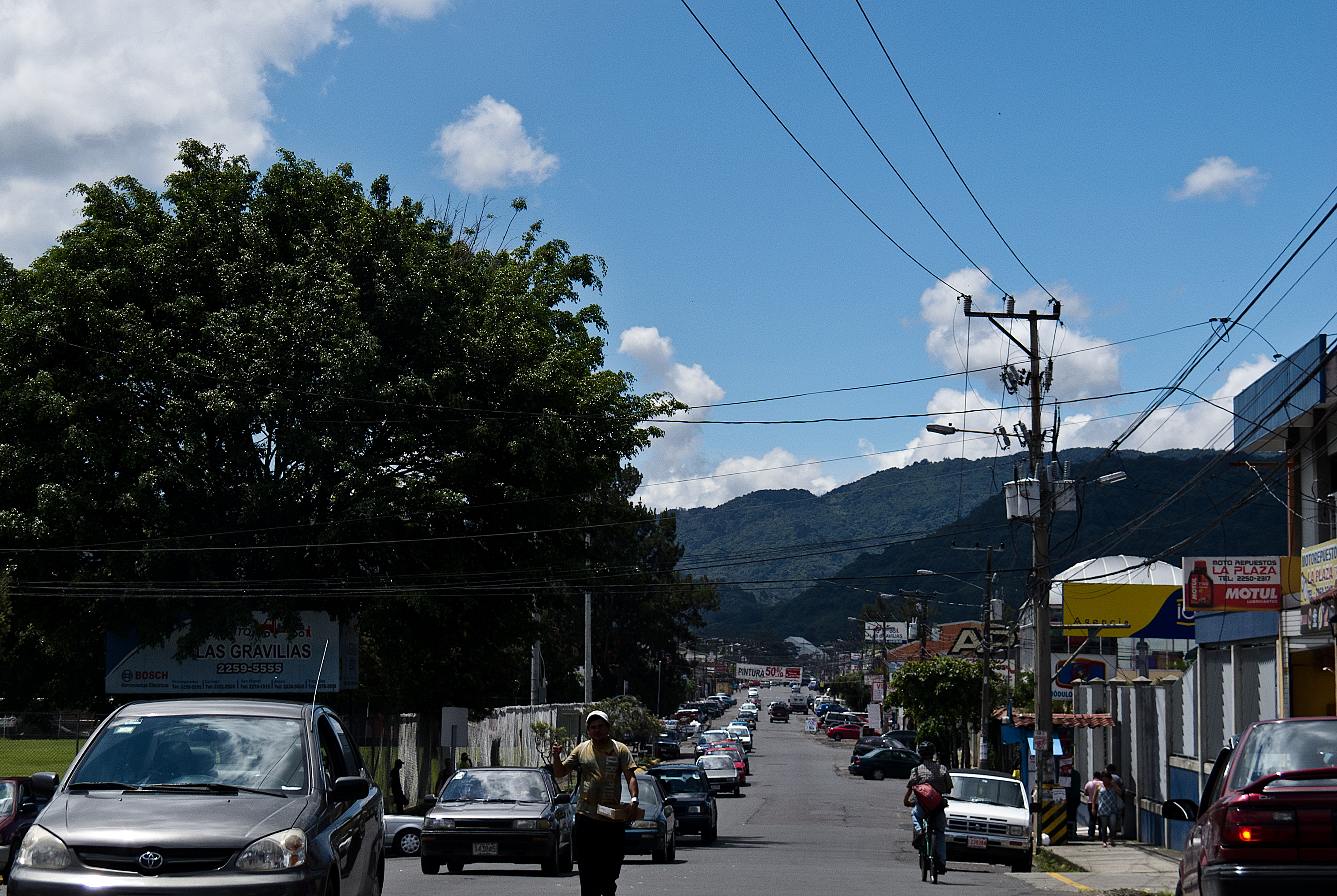 Street in Desamparados, San Jose, Costa Rica